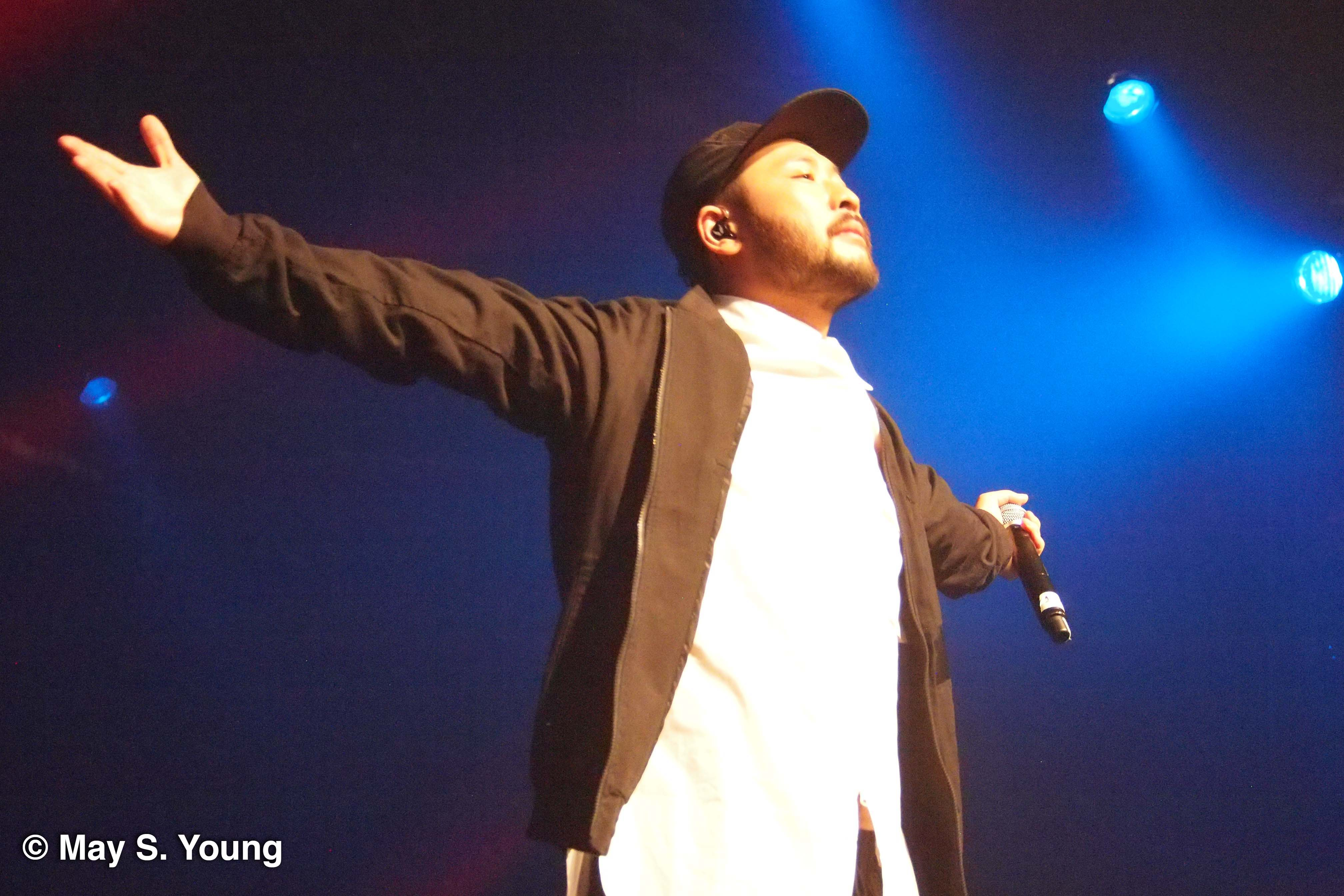 OLYMPUS DIGITAL CAMERA Epik High, Master Wu & DJ Soulscape at Best Buy Theater, New York City - 6/12/2015